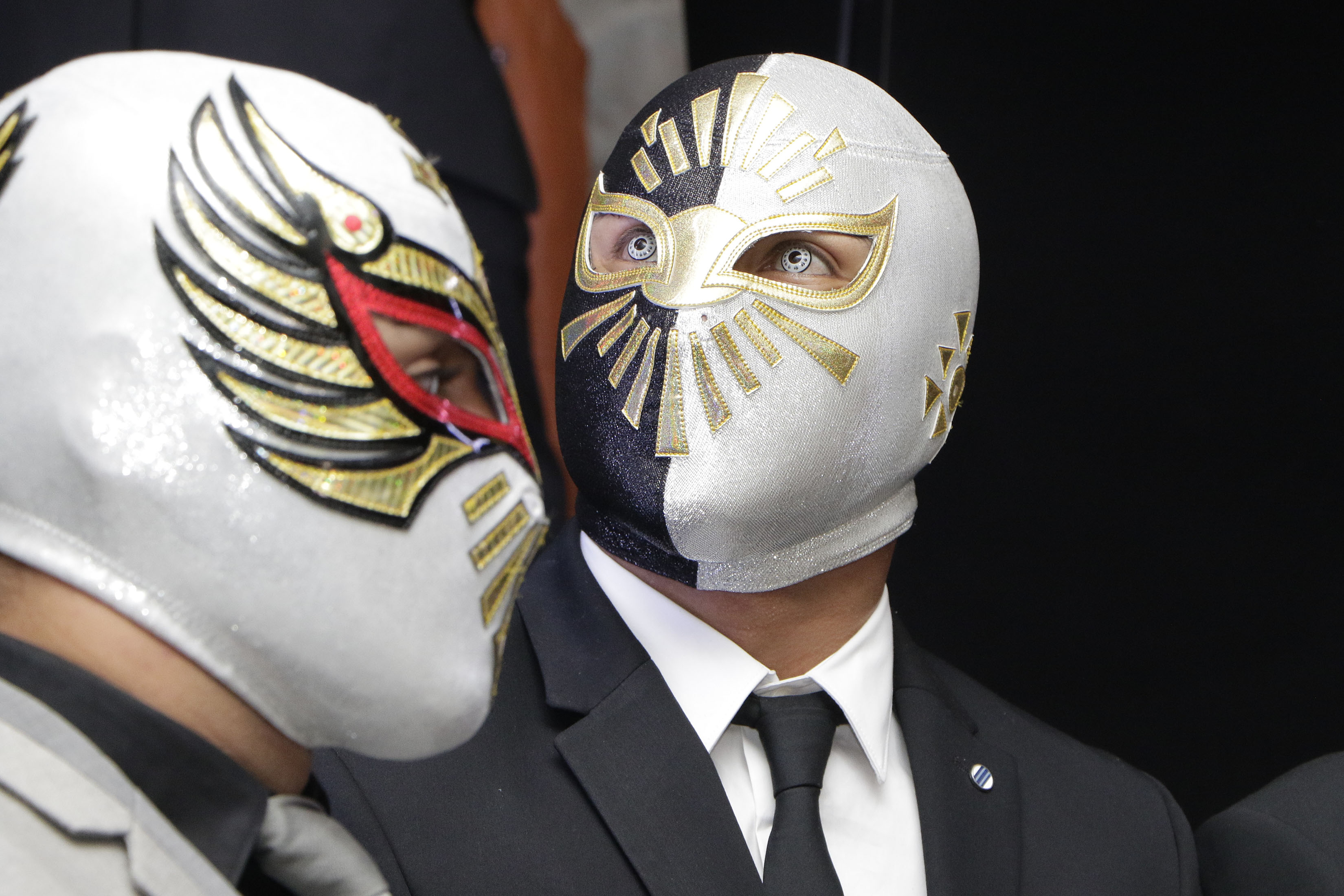 Mexican masked wrestlers Caristico and Mistico